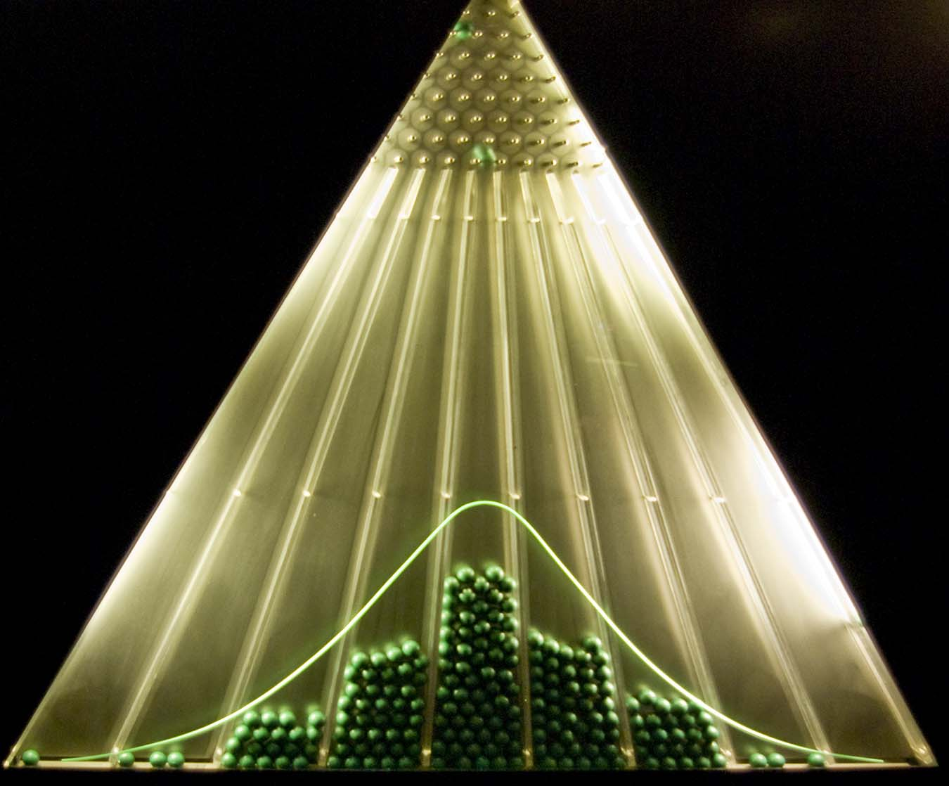 Galton Box (demonstrates normal distribution)